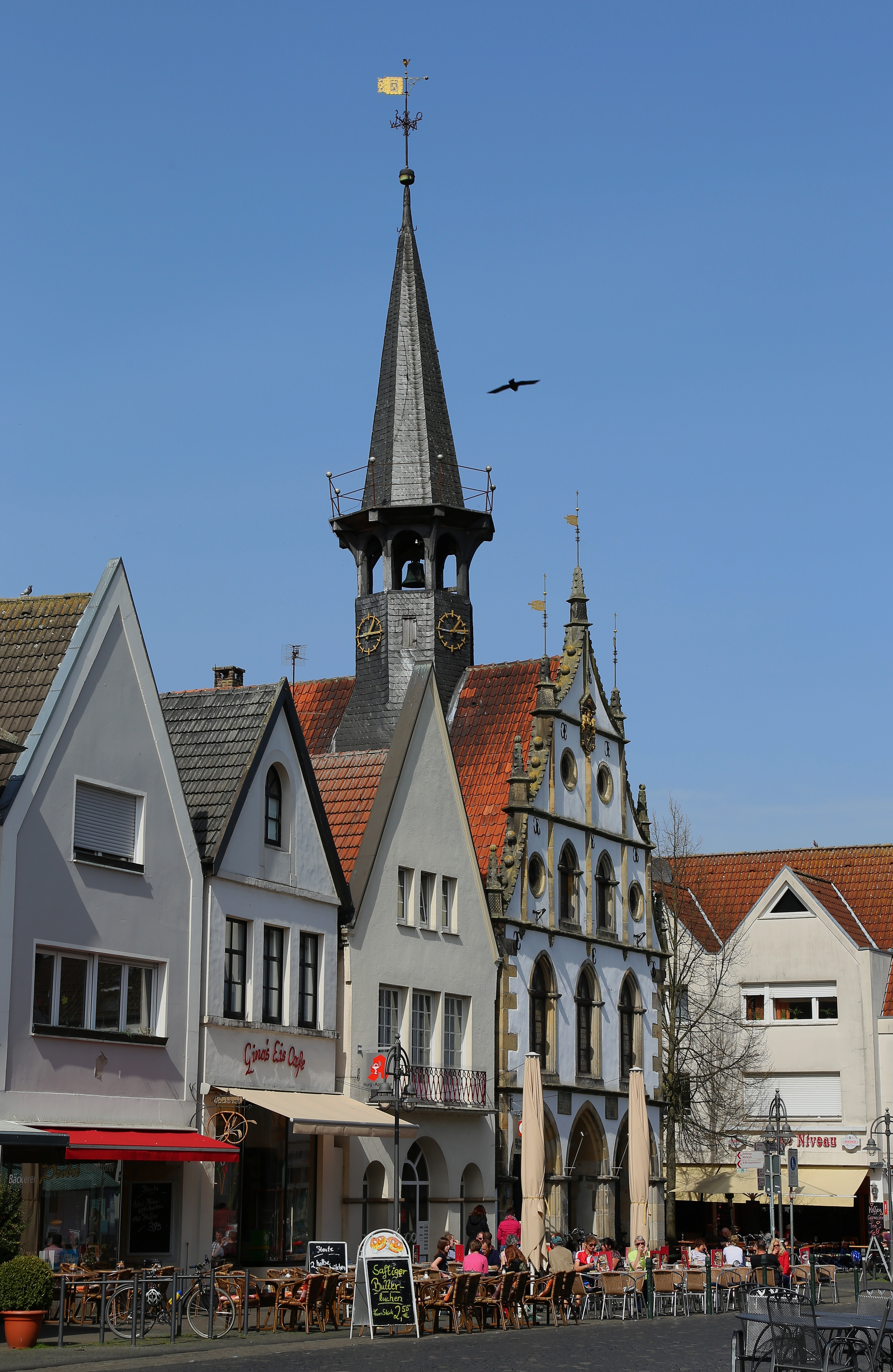 Buildings at the market square (Markt) in Steinfurt-Burgsteinfurt, Kreis Steinfurt, North Rhine-Westphalia, Germany.